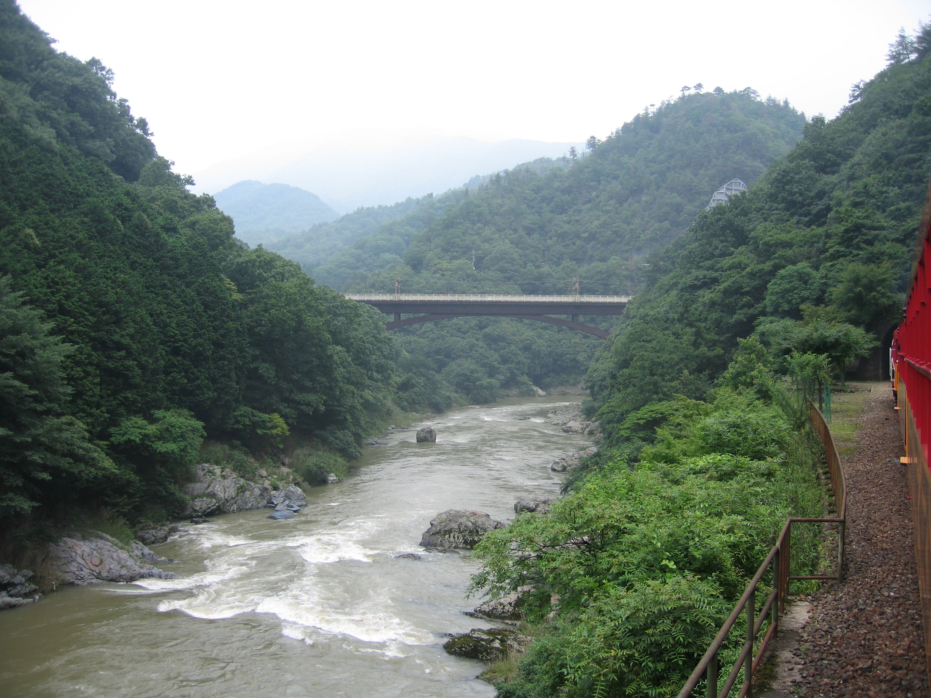 Hozu river from Sagano Torokko Ressha (Romantic Train)